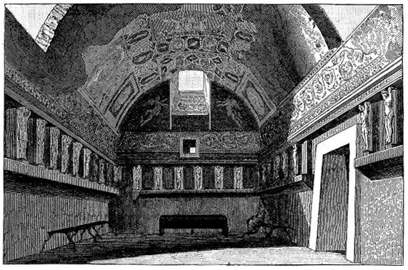 The tepidarium (lukewarm bath) of the Old Baths at Pompeii.